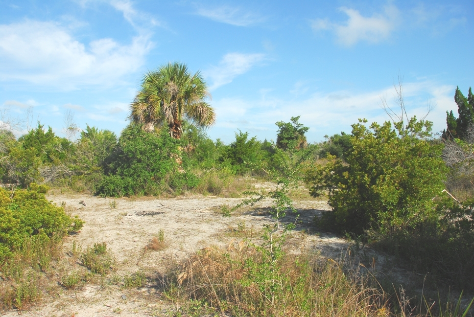 Example of dredge spoil plant community in Thousand Islands, Cocoa Beach, Florida.